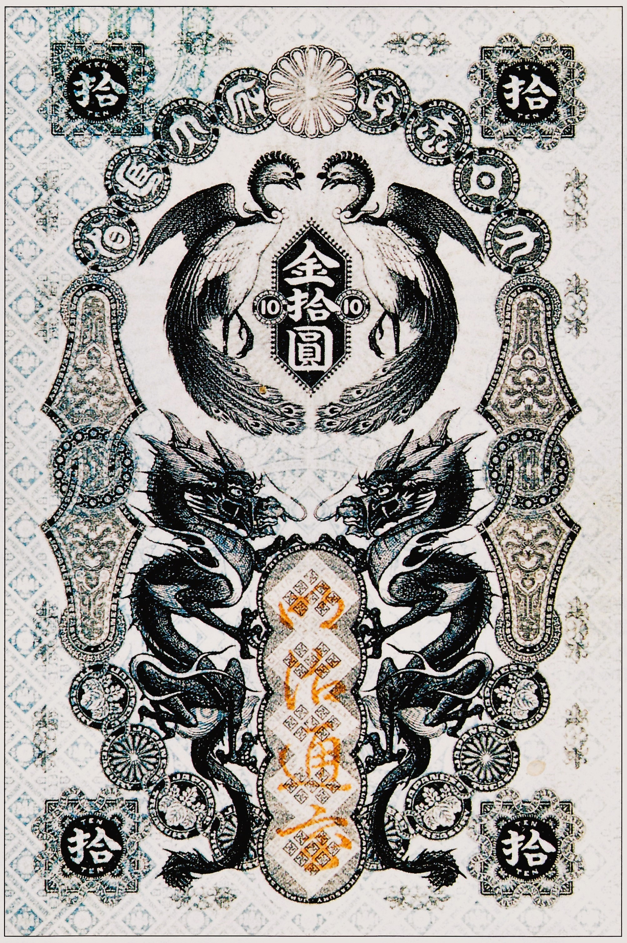 Frist Japanese banknotes, printed in Germany 1873